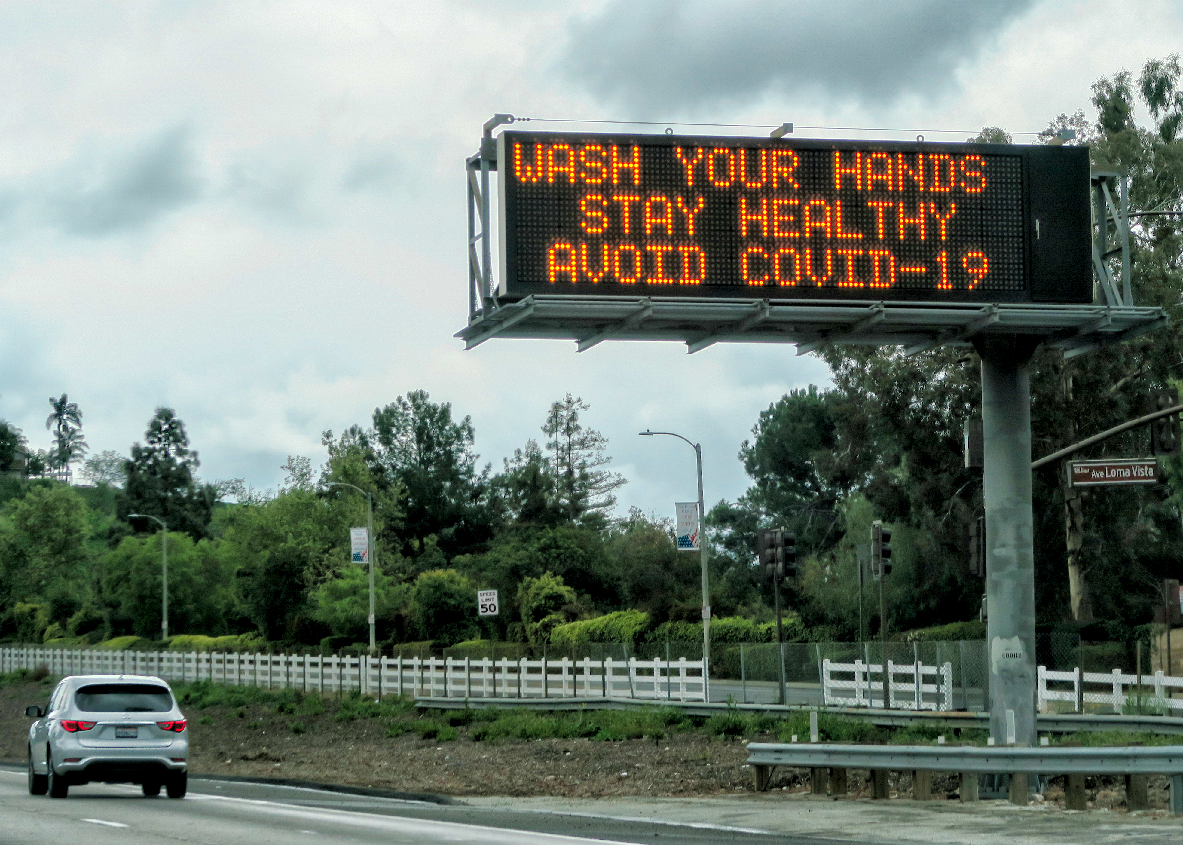 A freeway warning sign about Covid-10, in Southern California.